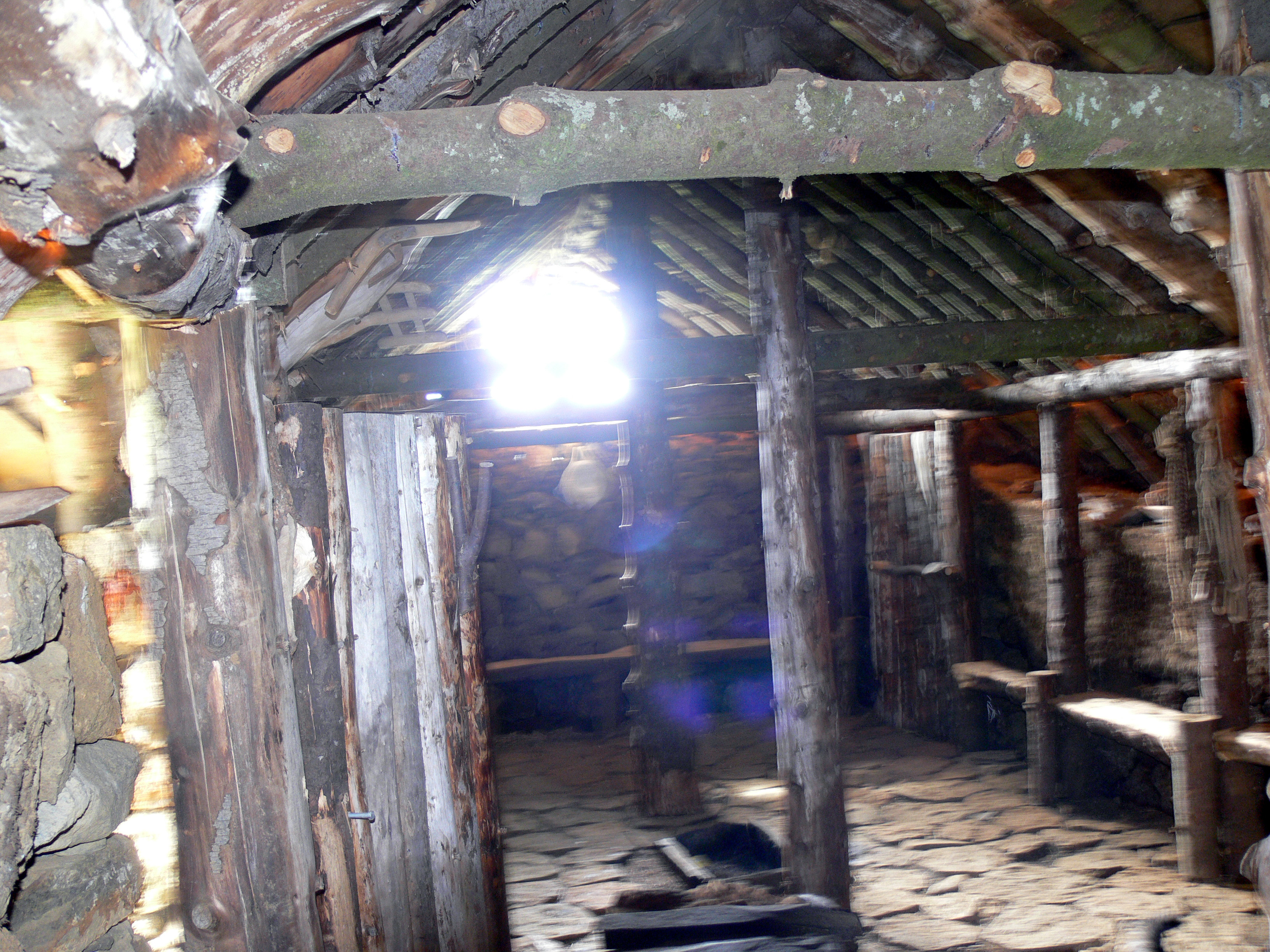 Meyjarhof (= refuge) at Café Langbrók, Fljótshlíð, Iceland, in stone and peat; reconstructed. So shall the first temporary buildings of the settlers have been, where they all lived, while the actual farm was built. Rough translation by Google Translate.